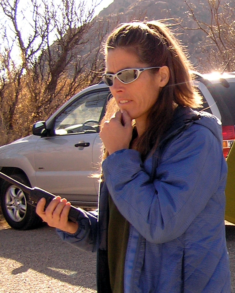 crop of Lynn Hill from photo of people about to go bouldering at Lynn Hill Climbing Camp, Hueco Tanks, Texas. Levels adjusted.